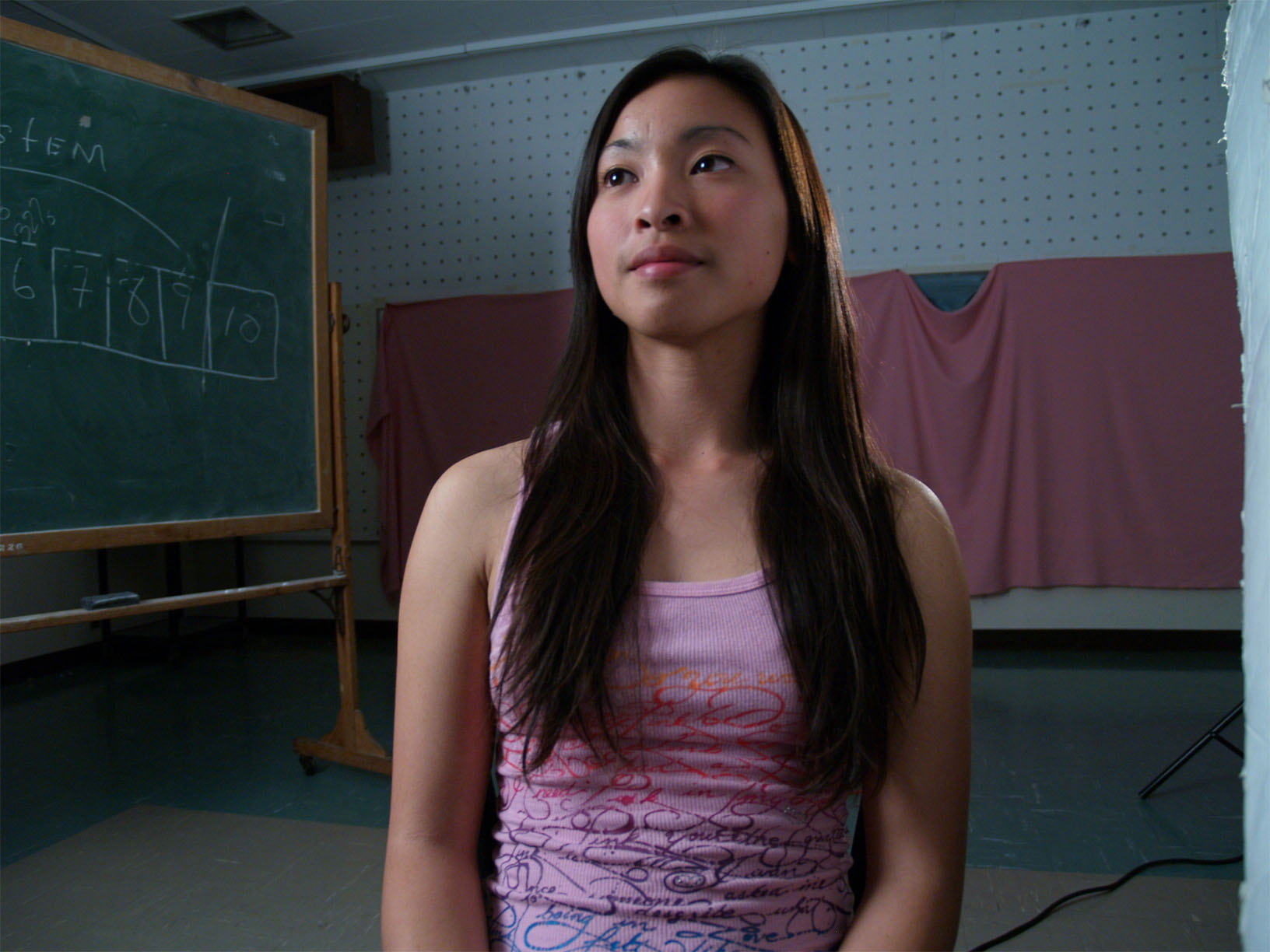 300 watt key light with 150 watt back light and bounce board fill